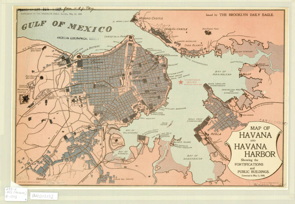 Map of Havana and Havana Harbor, showing the fortifications and public buildings / issued by the Brooklyn Daily Eagle Contributors: Brooklyn Daily Eagle (supplement to the Brooklyn Eagle, Sunday, May 22, 1898)